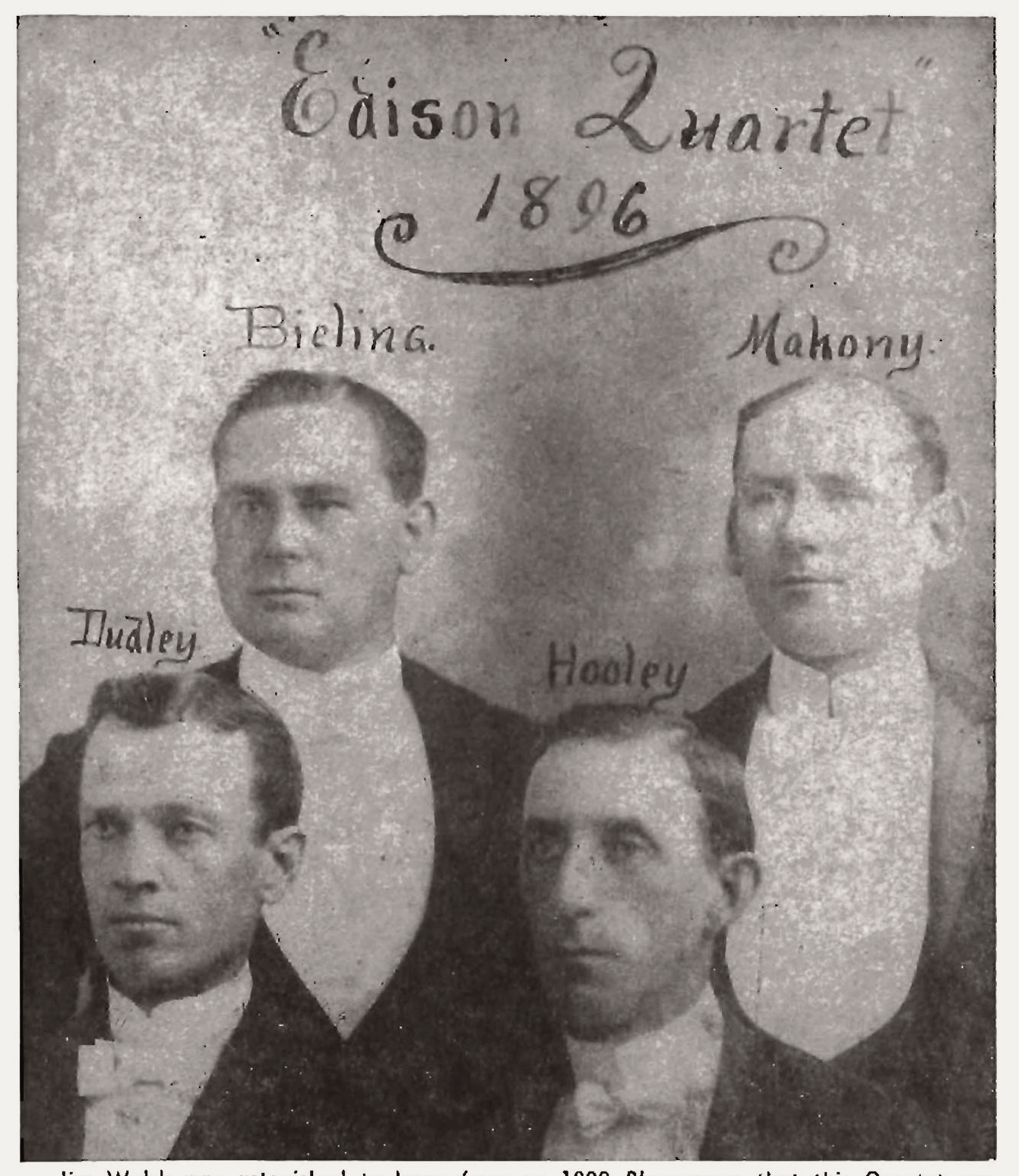 Photo of pioneer recording vocal quartet, the "Edison Quartet", also known as the Haydn Quartet.